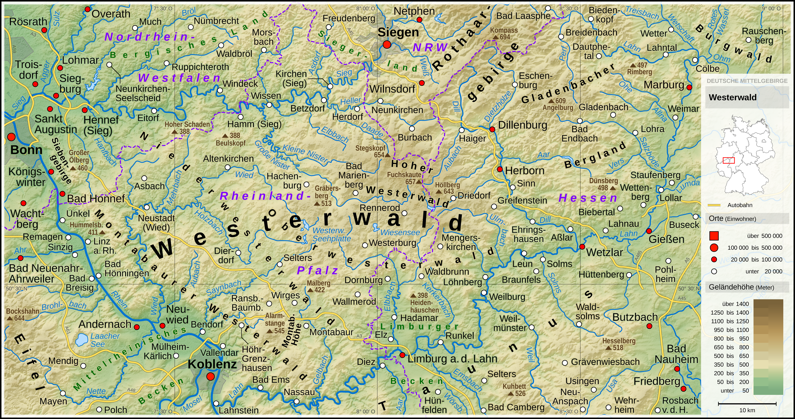 Topographic map of the Westerwald